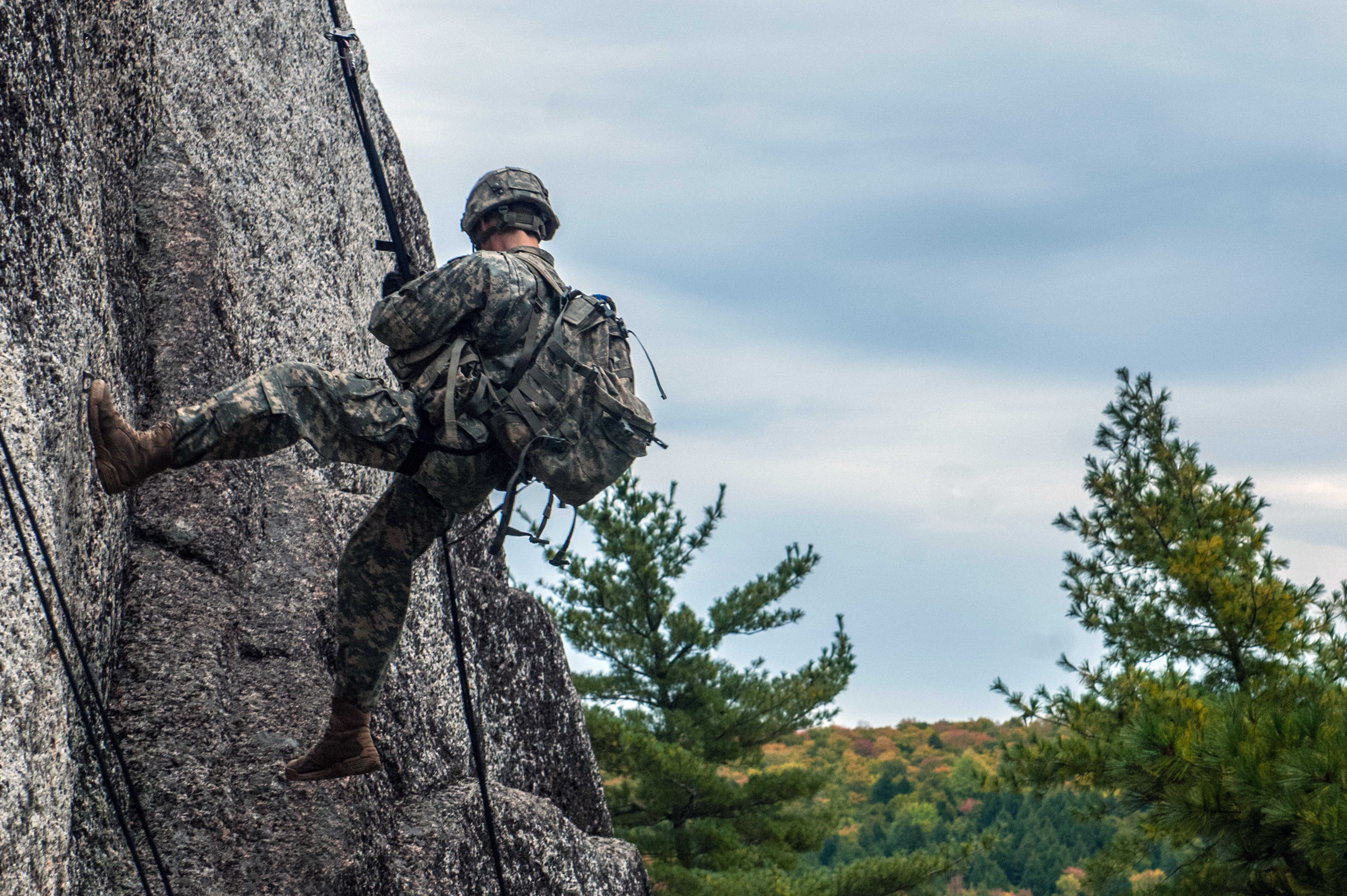 Spc. Glen Mallett, with the Maine Army National Guard’s B Company, 3rd Battalion, 172nd Infantry Regiment (Mountain), kicks off the wall while repelling down the rock face at Eagles Bluff, a cliff area in Maine with rock faces up to 200 feet in height. Mallett and his fellow Soldiers spent time at Eagles Bluff training on mountaineering, rappelling, knot tying and medical evacuation skills. (Courtesy of the Maine National Guard)